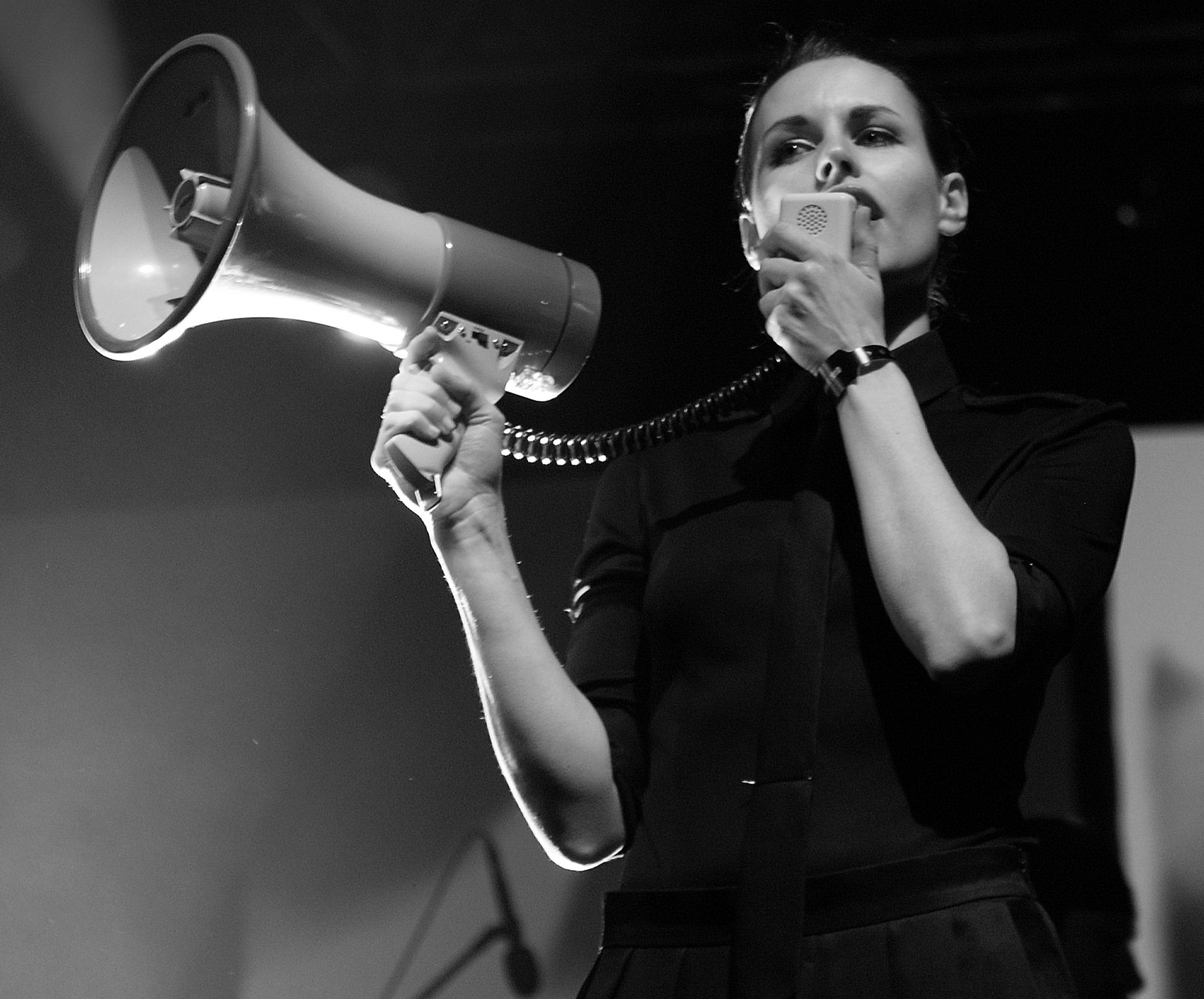 Taking of this photo was in cooperation with wRacku Festiwal